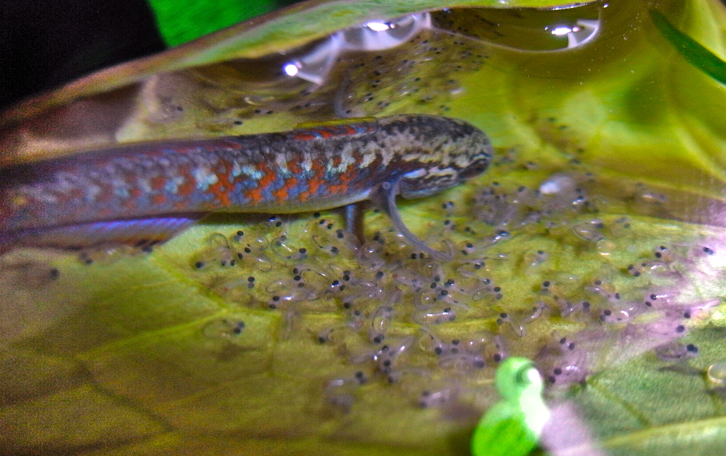 A male Tateurndina ocellicauda guards its young on a water lily leaf